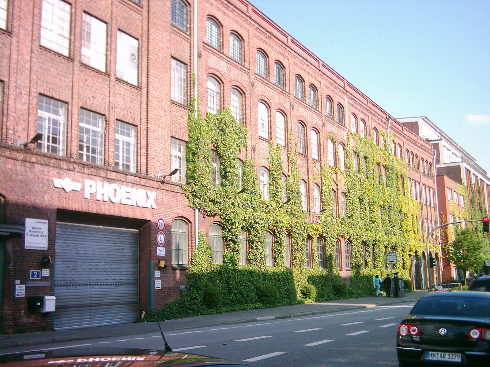 Phoenix AG in Hamburg, Germany.